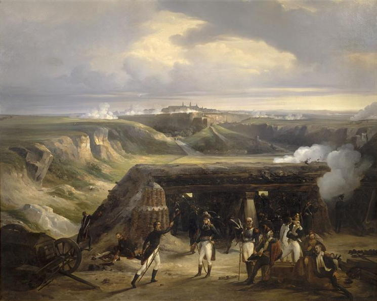 Charles-Caïus Renoux, Siège de Luxembourg, 12 Juin 1795 (1837, Musée National des Châteaux de Versailles et de Trianon)